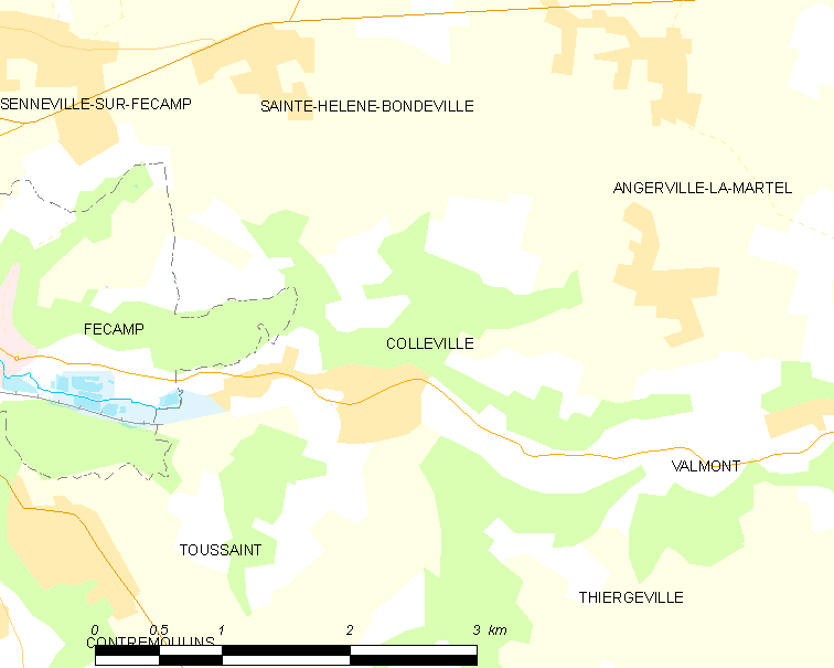 Map of French municipality Colleville